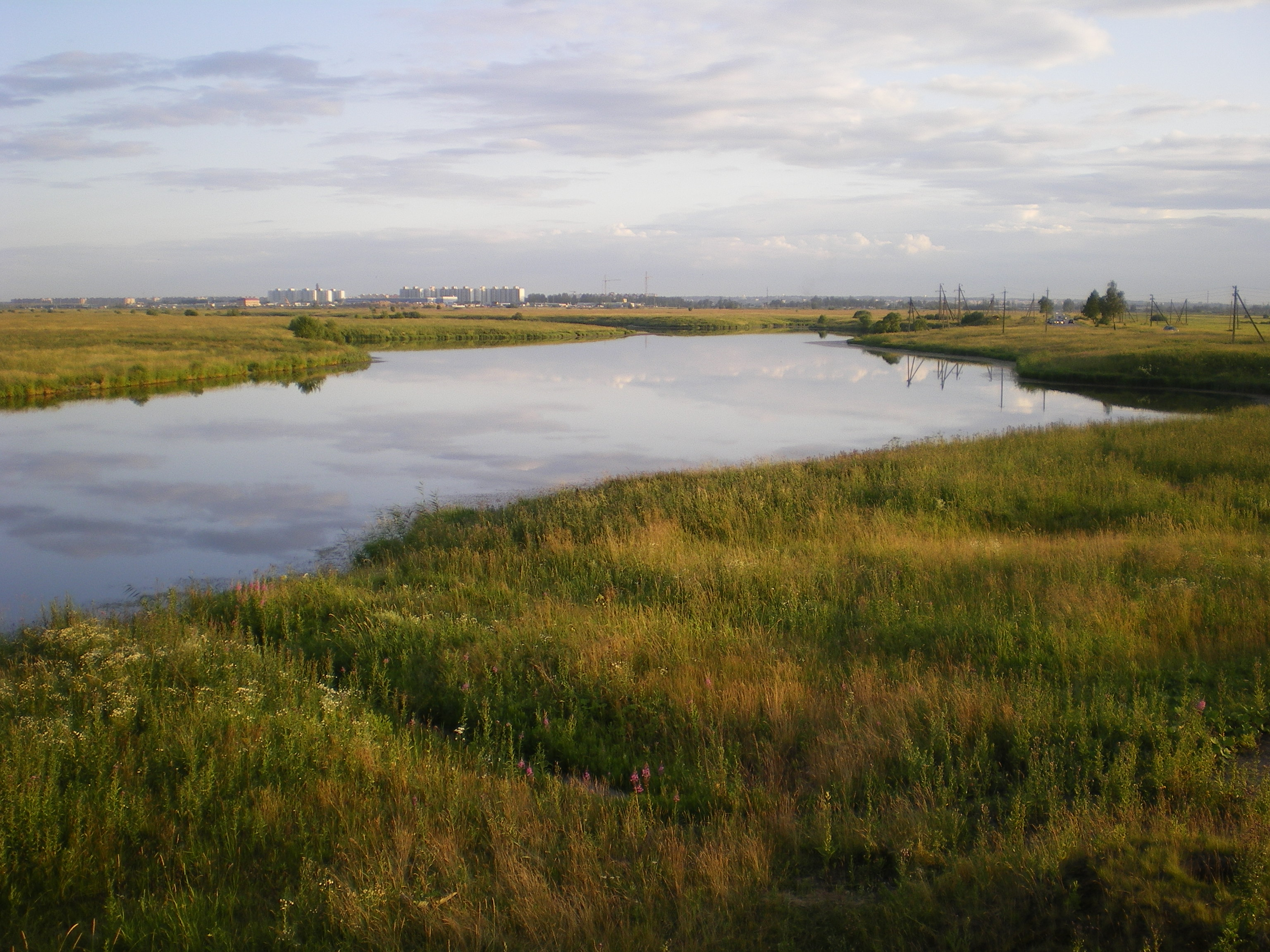 Nizhnee Kuzminskoe reservoir